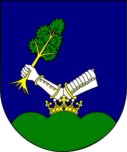 Coat of arms (shield only) of Vince Jekelfalussy, bishop of Spiš, Slovakia (1848 - 1849), bishop of Székesfehérvár, Hungary (1867 - 1874)